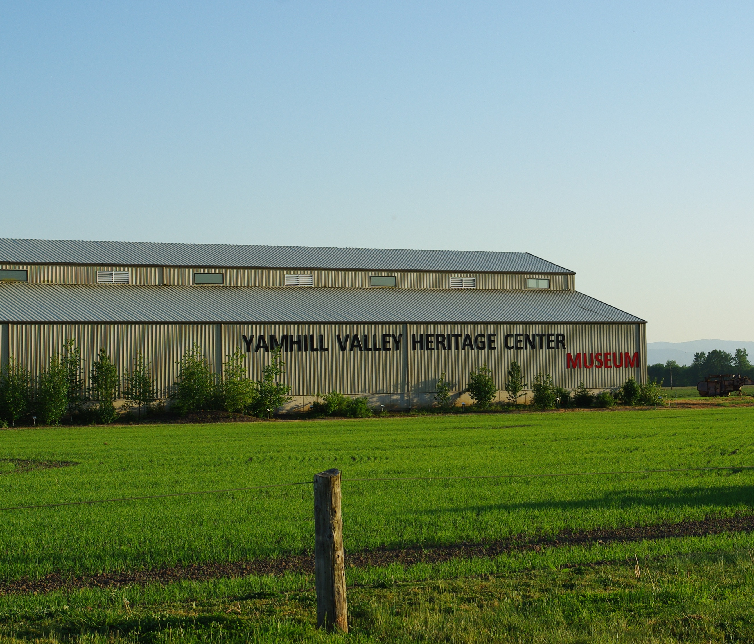 Yamhill Valley Heritage Center (museum) on OR18 in McMinnville, Oregon.